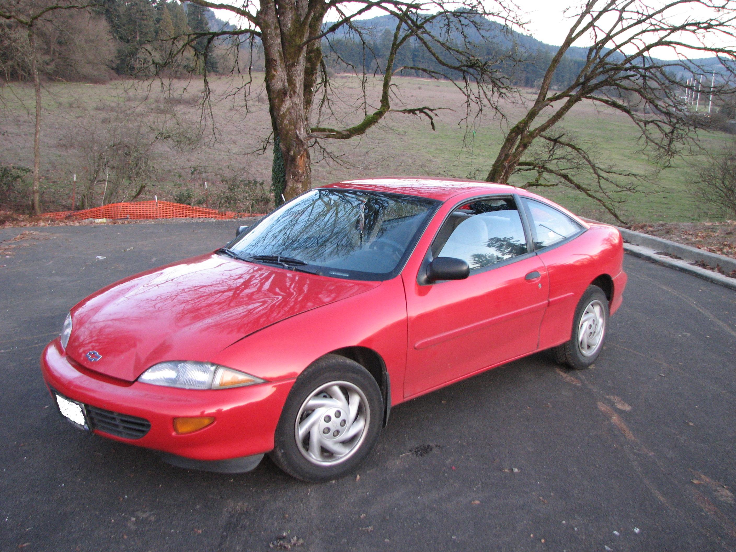 1995-1999 Chevrolet Cavalier coupe